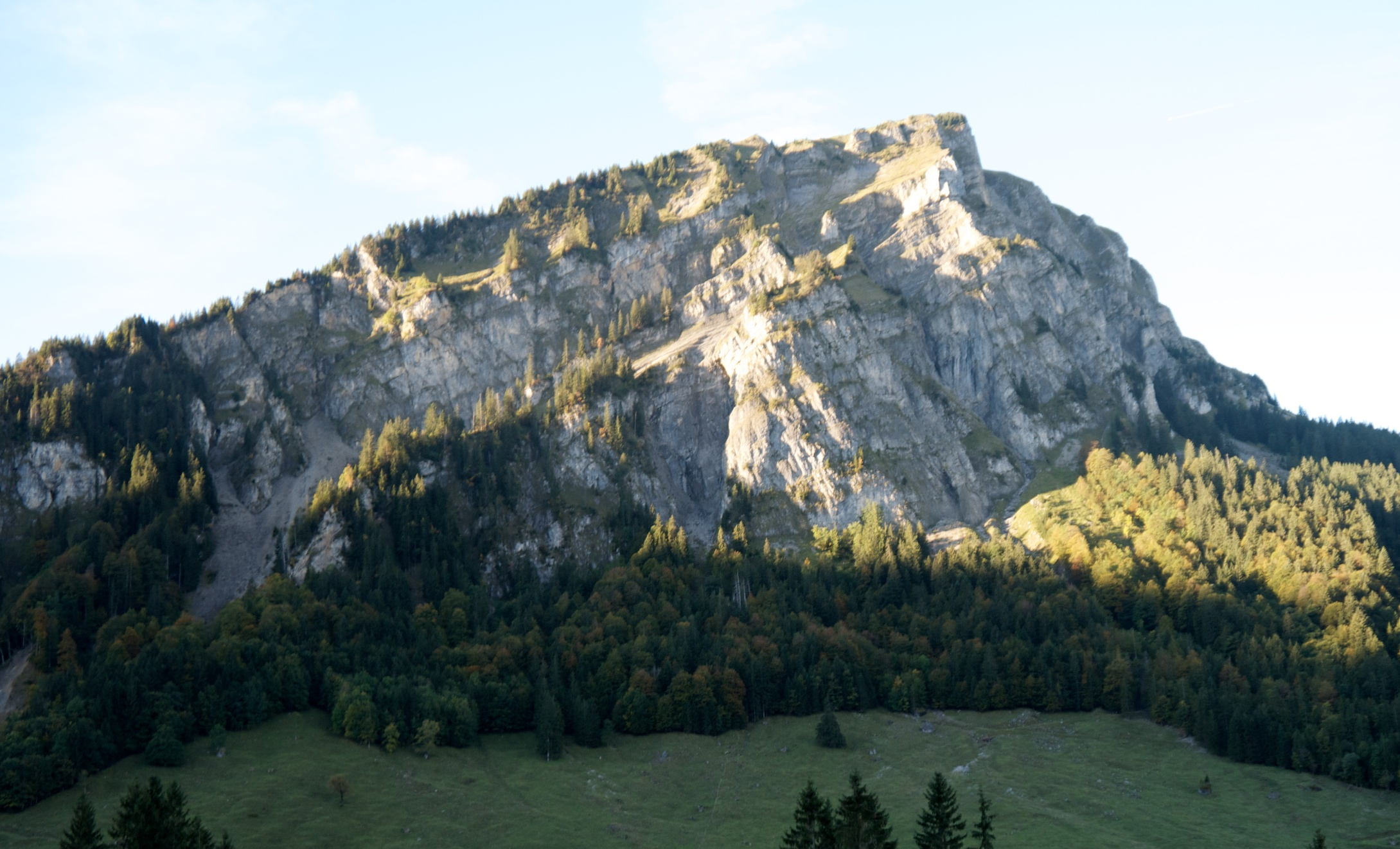 Schmibrig view from Gfellen, Canton of Lucerne, Switzerland